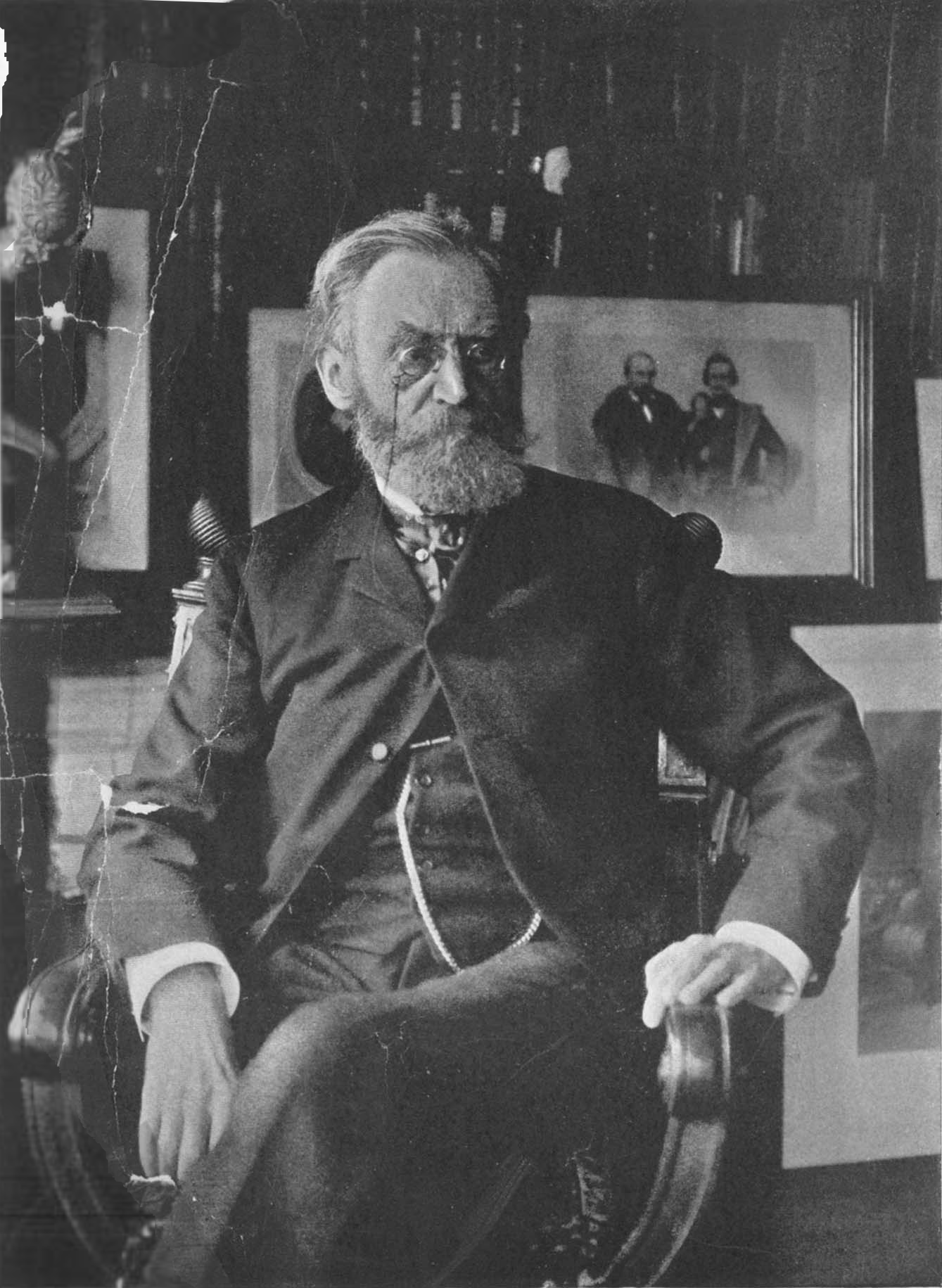 Carl Schurz "in 1906" (1905 seems more likely) seated before memorabilia from his life